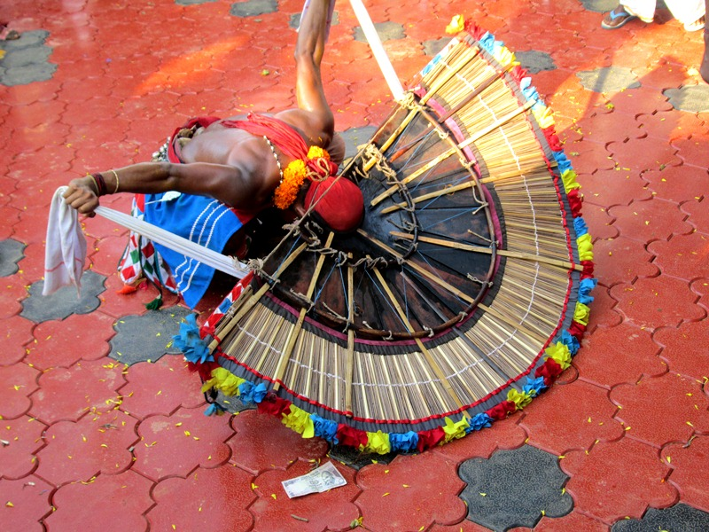 Thira, a popular ritual form of worship.